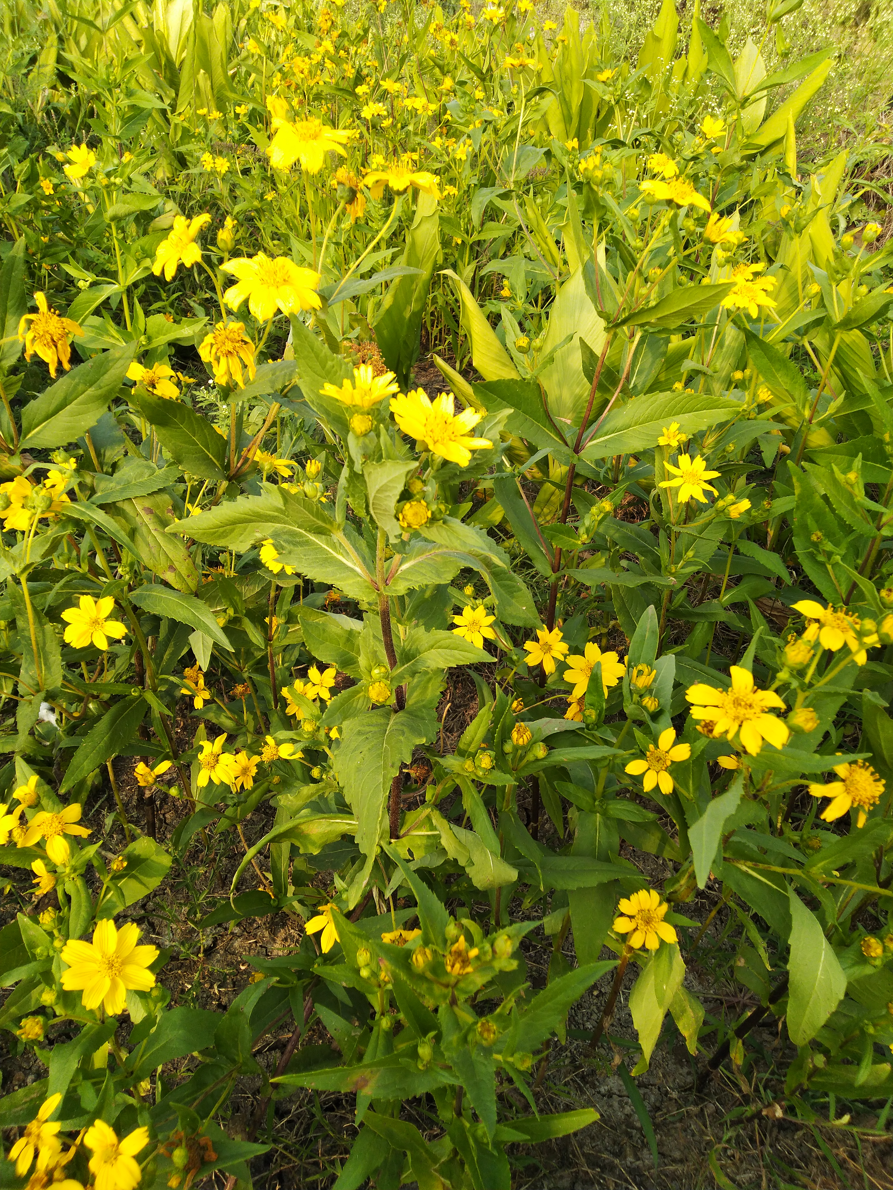 Bhringraaj in Jamthi Kh.